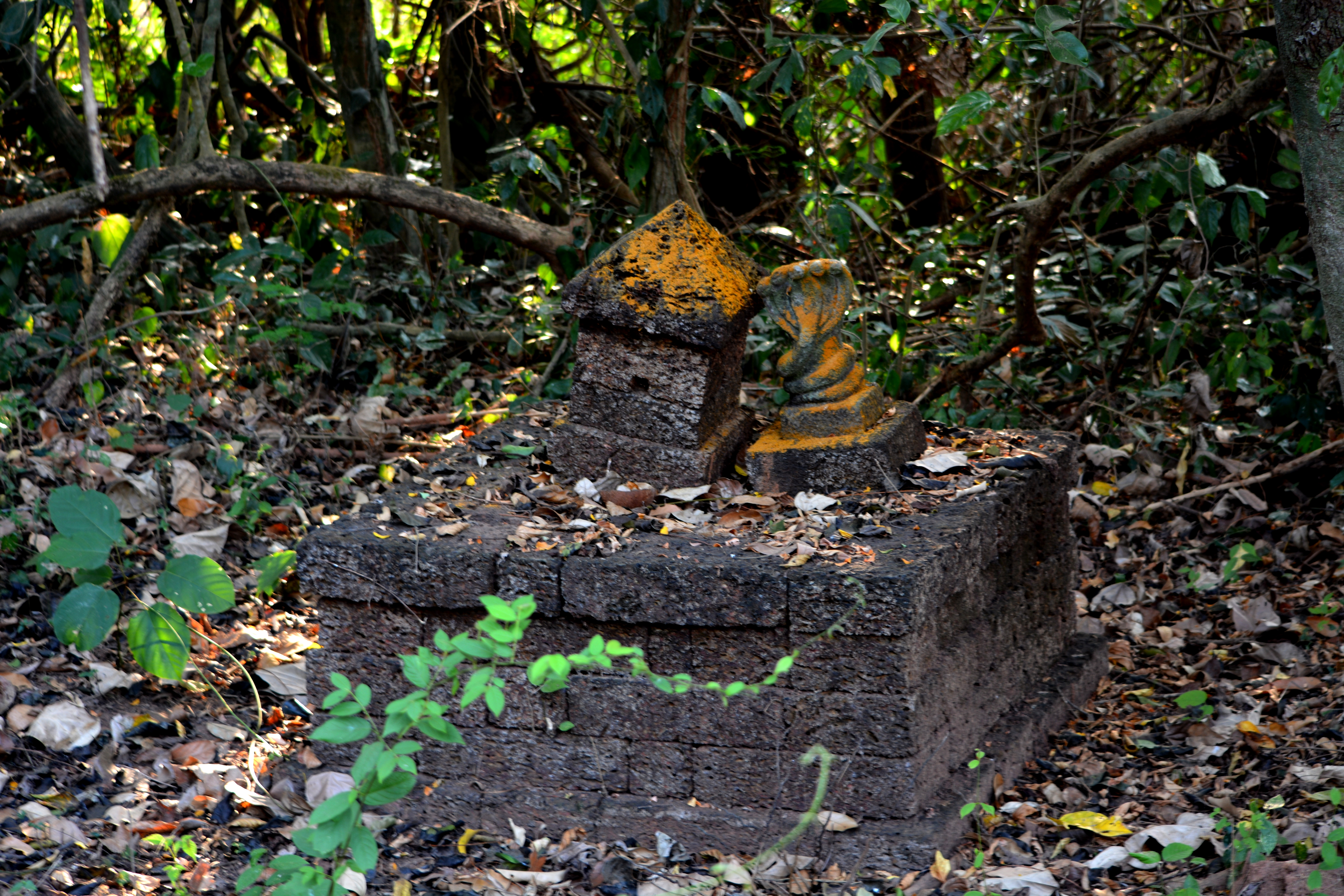 Sarpa Kavu : (meaning Abode of Snakes) is a traditional natural sacred space seen near traditional homes in Kerala state of South India. Click form Kannor. Near Narikkodu